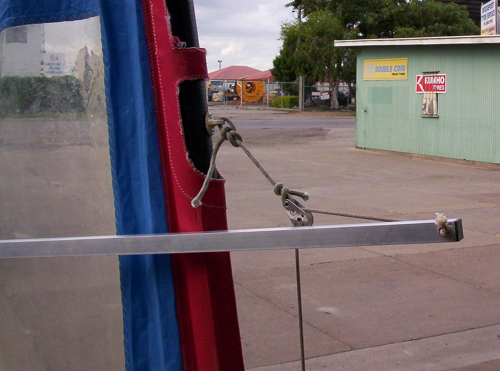 Photo of snotter on a sprit boom.